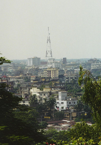 Chittagong in early morning. Released into the public domain by its author, the uploader of the image.